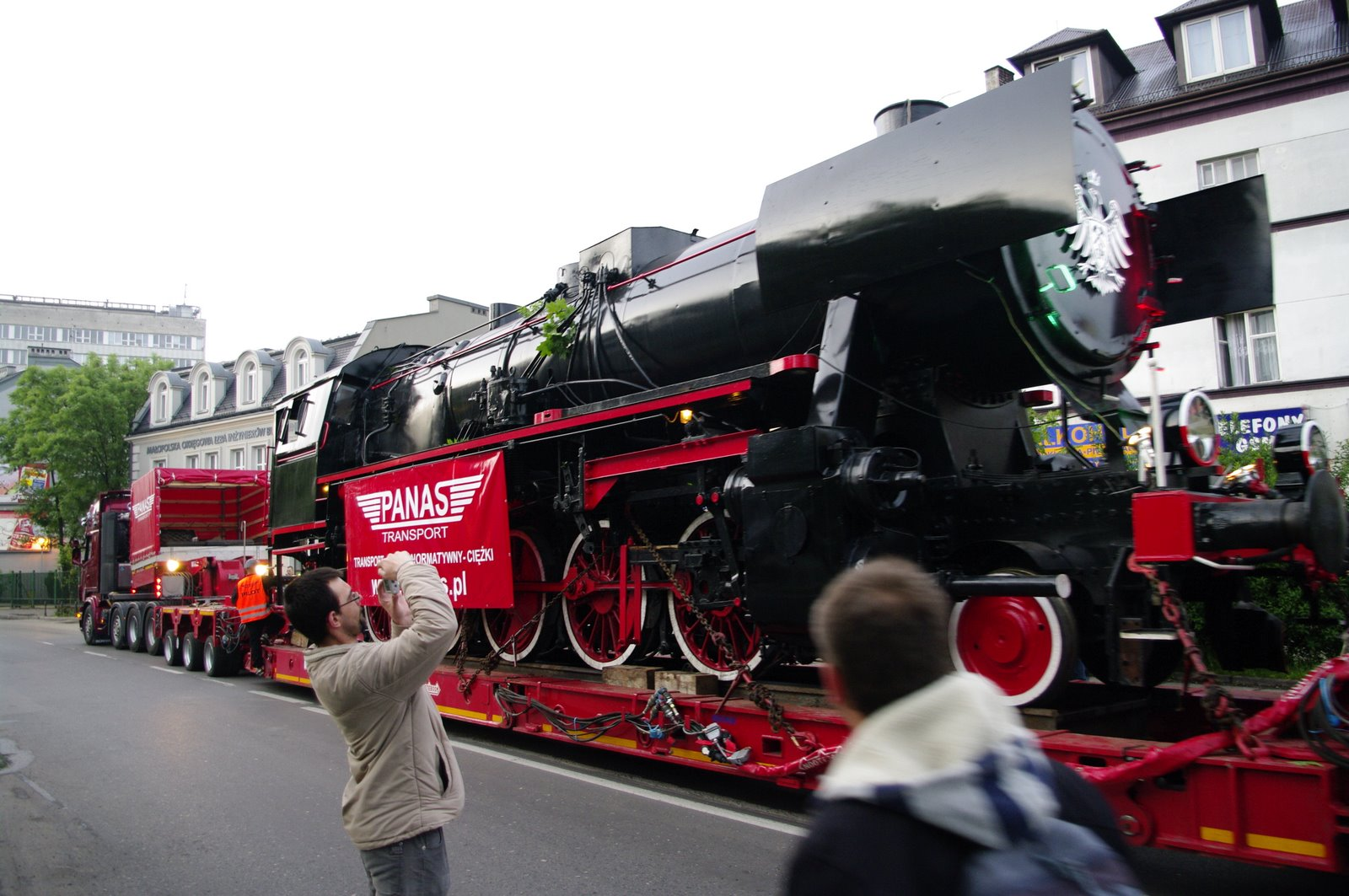 Ty2-559 locomotive during transport.